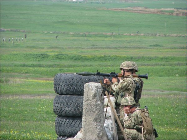 A Co, 31st Bn Crew Served Weapons training - Soldiers prepare to shoot rocket propelled grenade. Krtsanisi National Training Center (KTA).